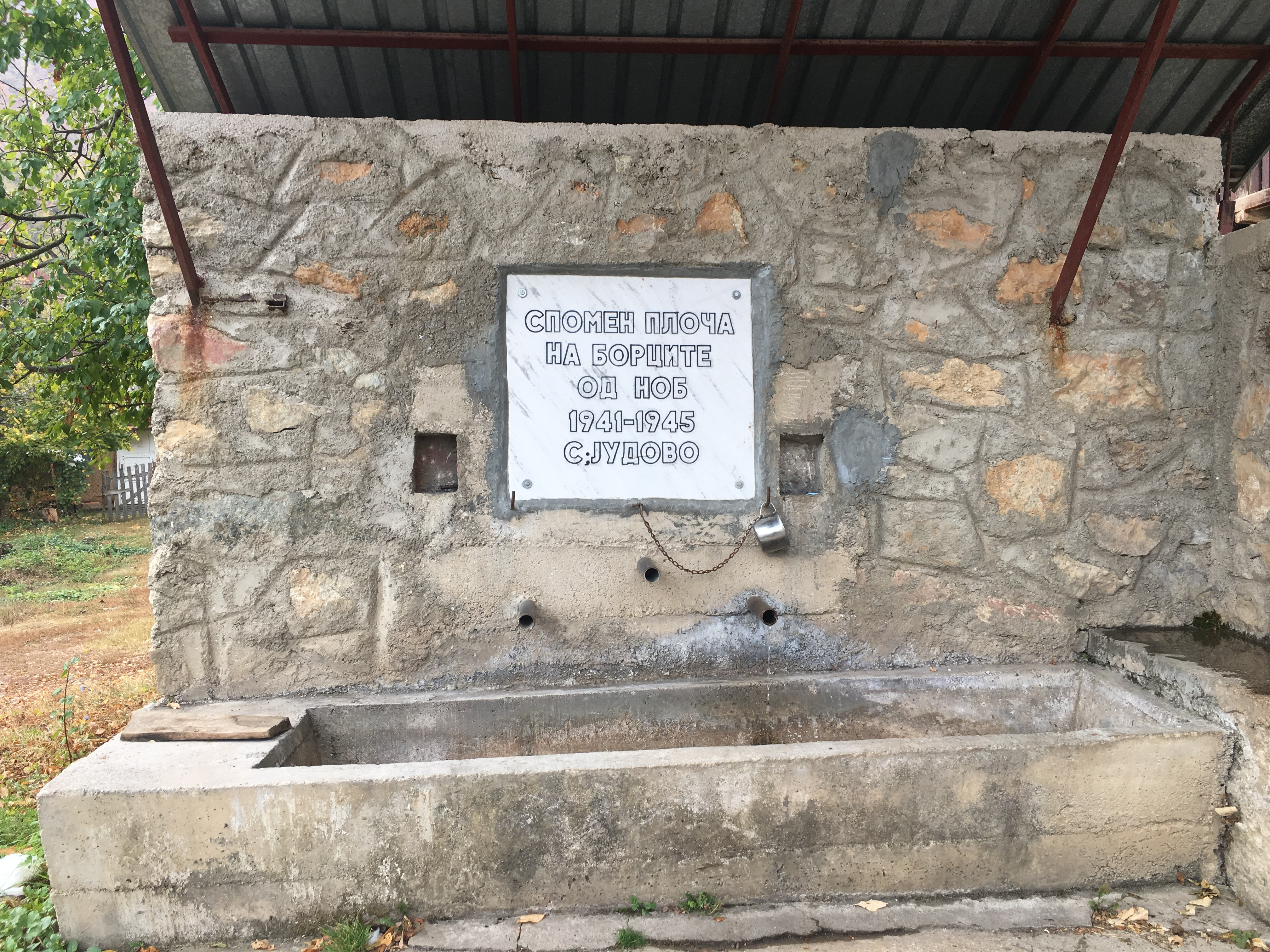 Wikiexpedition to Kopačka